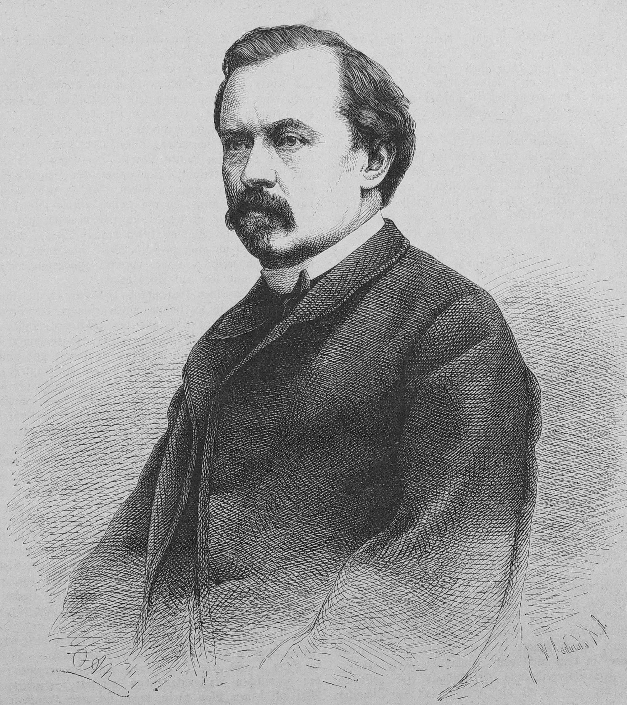 caption: "Alfred Meißner."